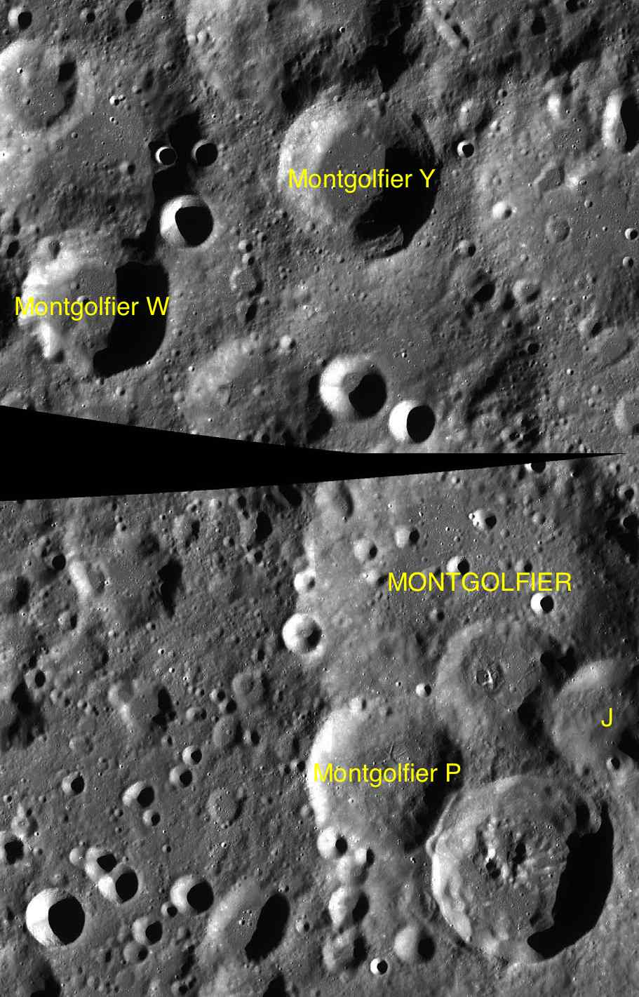 Parts of the charts LAC-19, LAC-33 used for the presentation